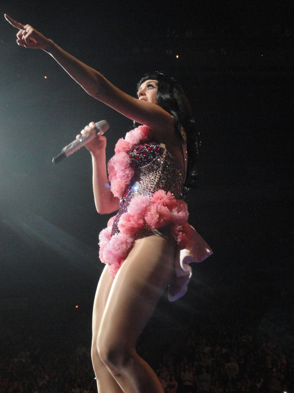 Katy Perry - Seattle, WA 7/20/2011